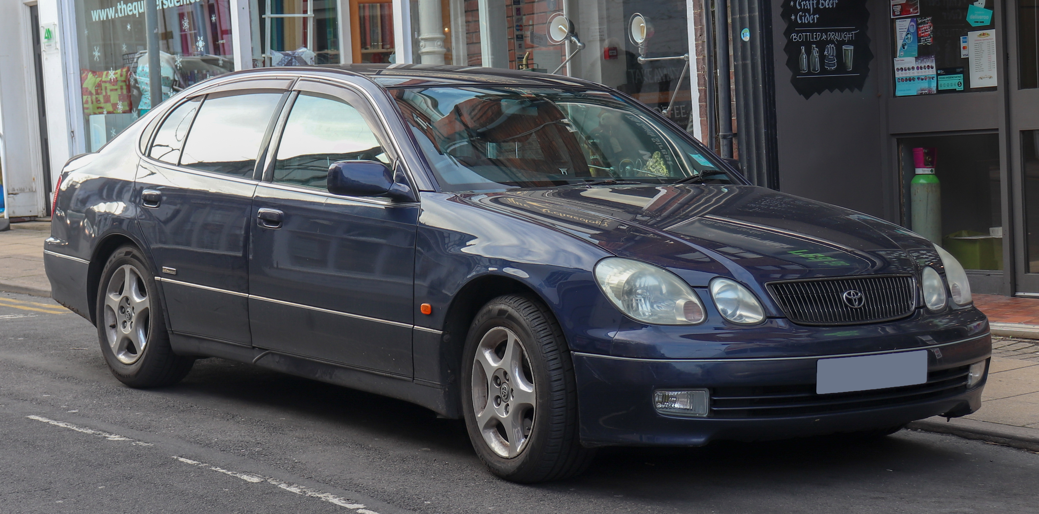 1999 Toyota Aristo V300 Vertex Edition 3.0 Front Taken in Warwick